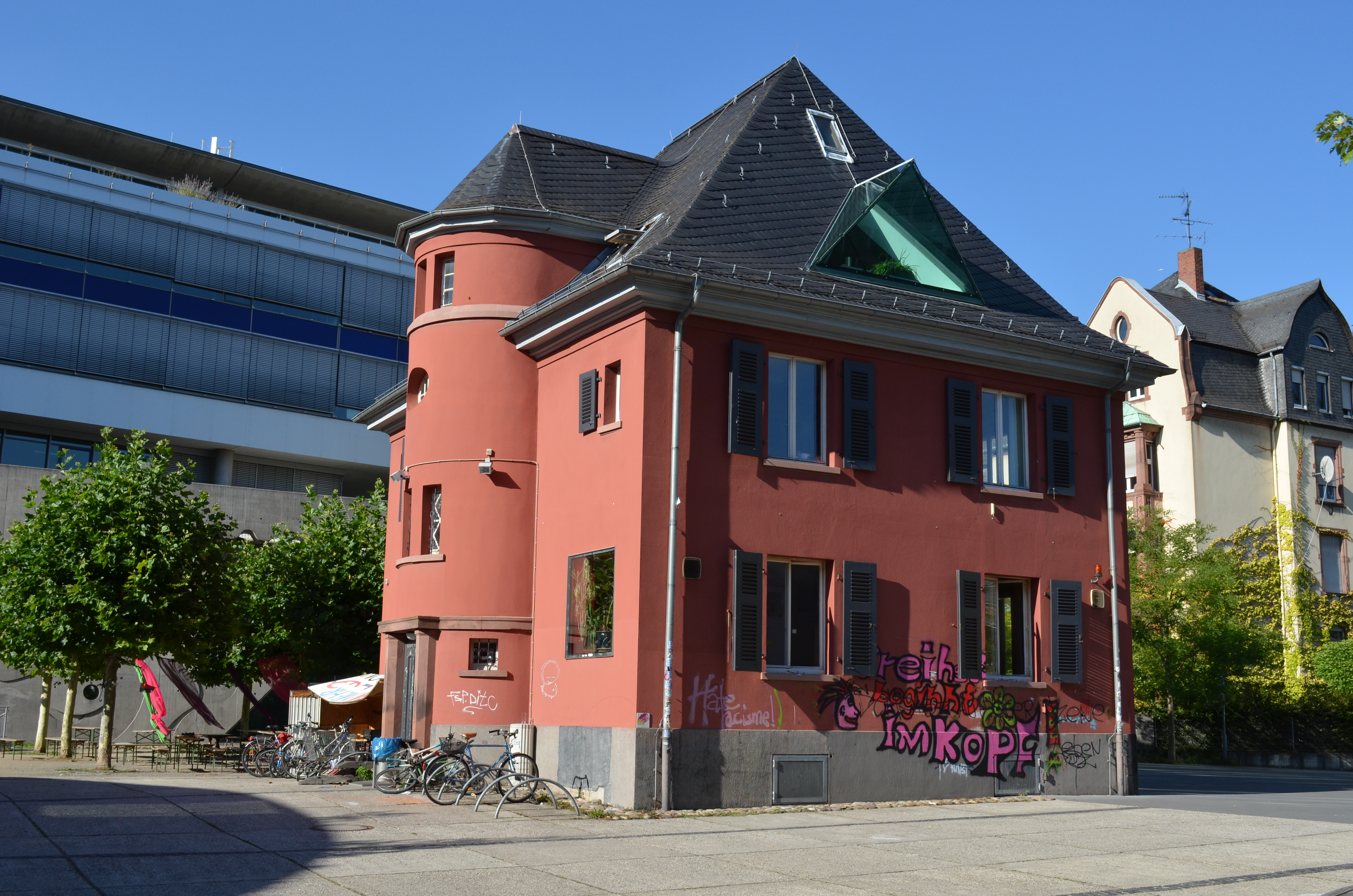 Fachhochschule Frankfurt am Main (FH FFM) - University of Applied Sciences: Building 5, location of AStA and Cafe Kurzschlusz.